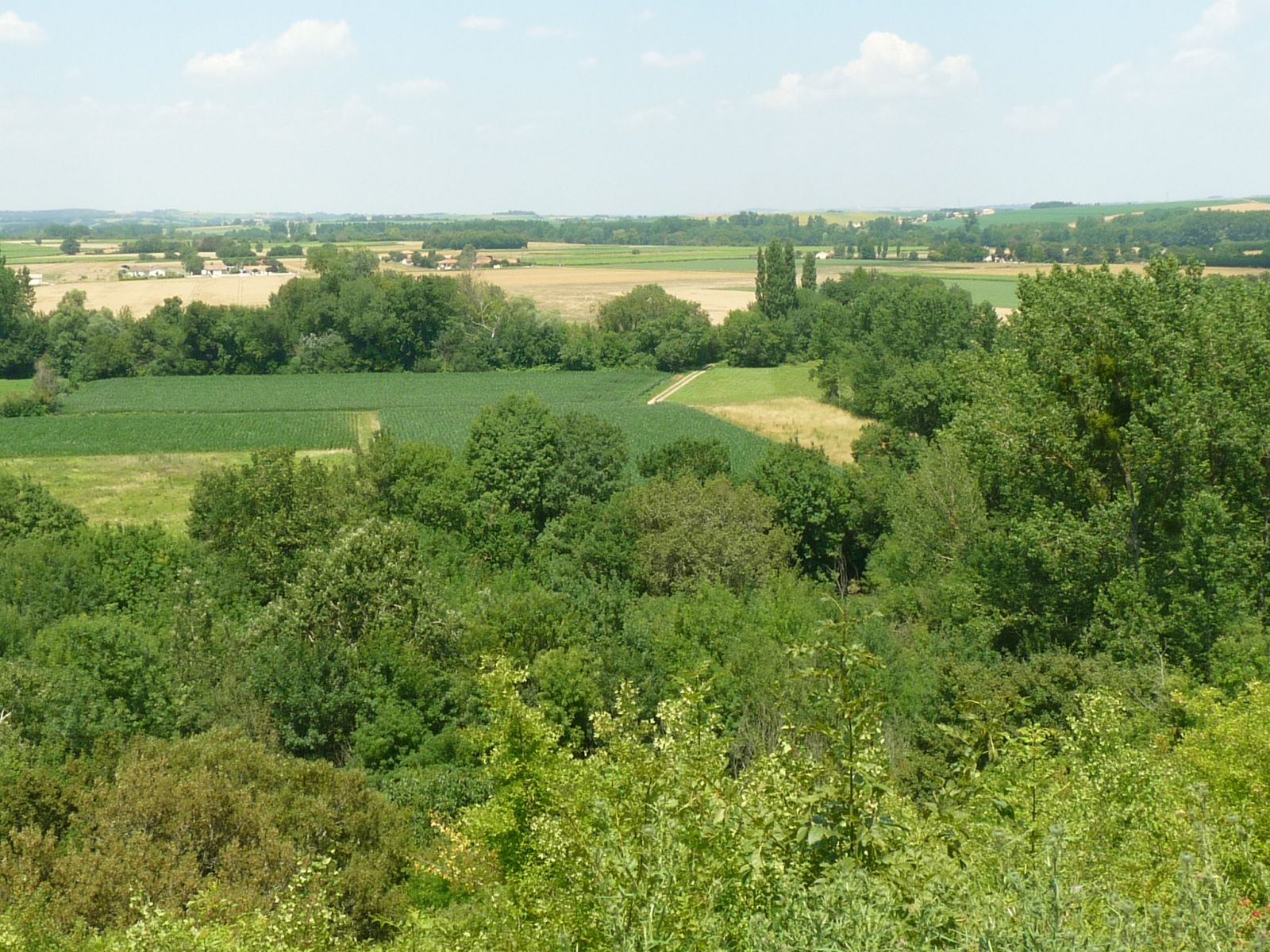 Valley of the river Charente near Vindelle and Balzac, SW France